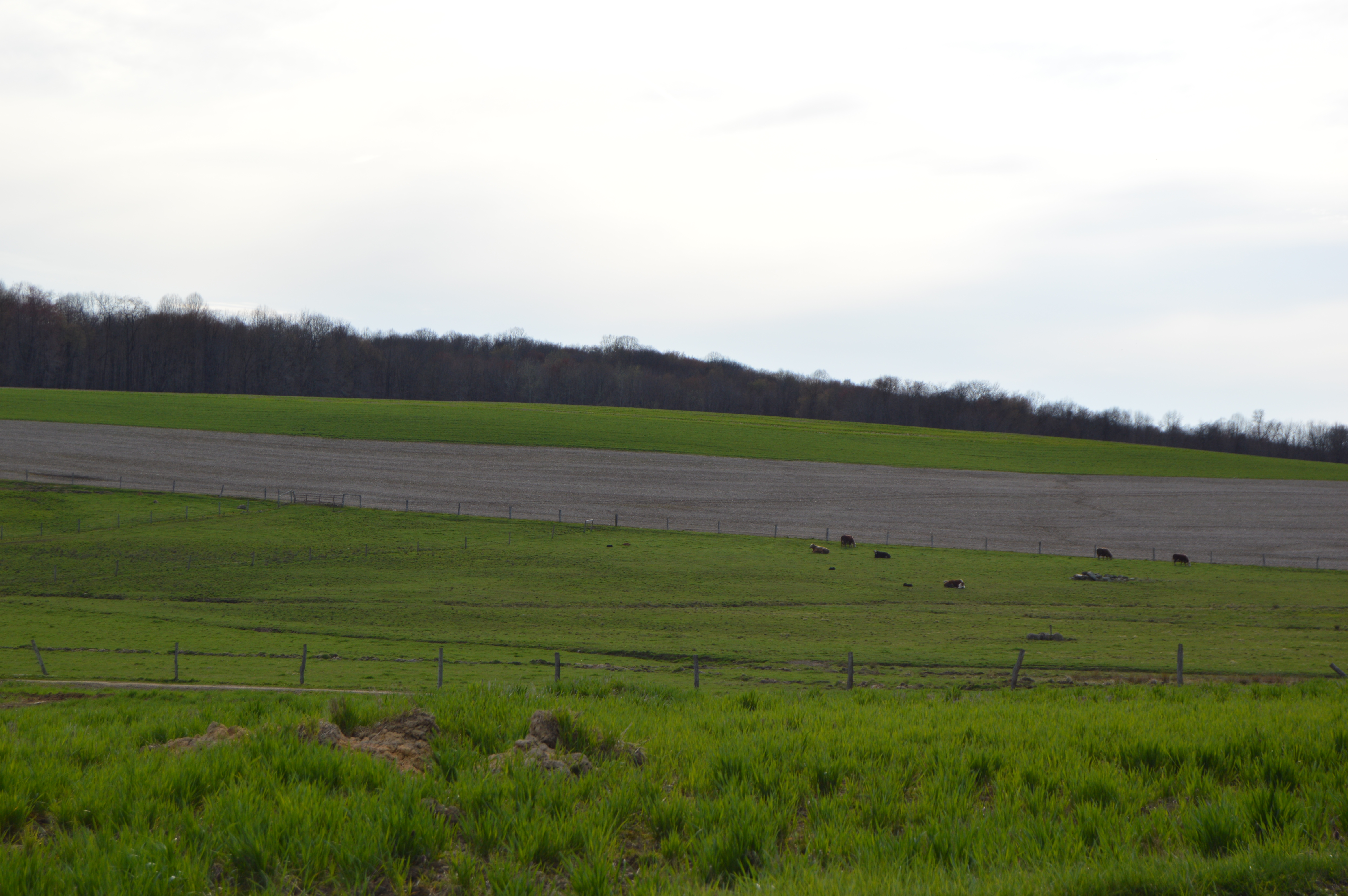 Looking west from Centertown Road over fields north of Harrisville in Mercer Township, Butler County, Pennsylvania, United States.